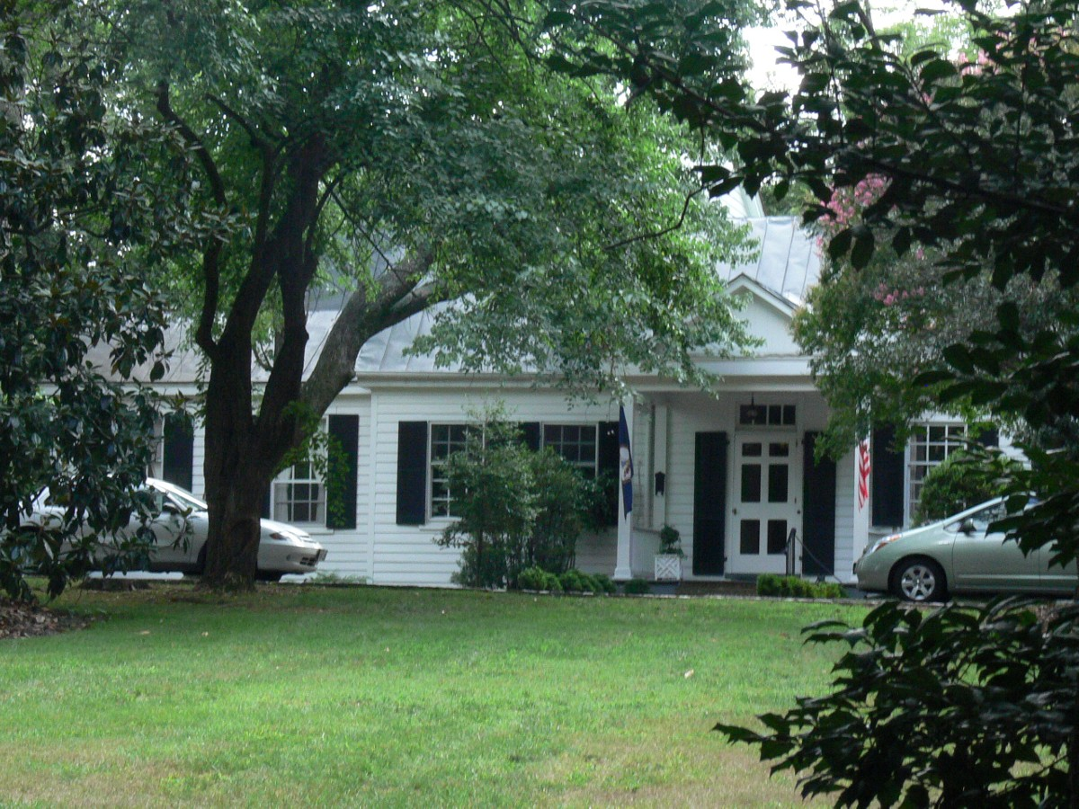 Boyd House, also known as the Gordon-Baughan-Warren House, on the National Register of Historic Places in Richmond, Virginia. (Photographers note: I know that I did downsize the image. The original image was somewhat blurry and in poor conditions; reduced for sake of Wikimedia storage reasons until a better photo can be taken (needing an image for the National Register list, and this was the only one on hand))